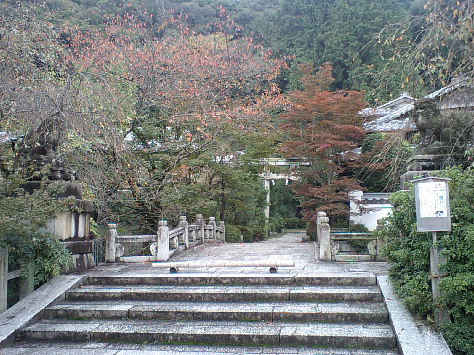 Kitashirakawa Tenjingu (Shinto Shrine) in Kyoto Kitashirakawa